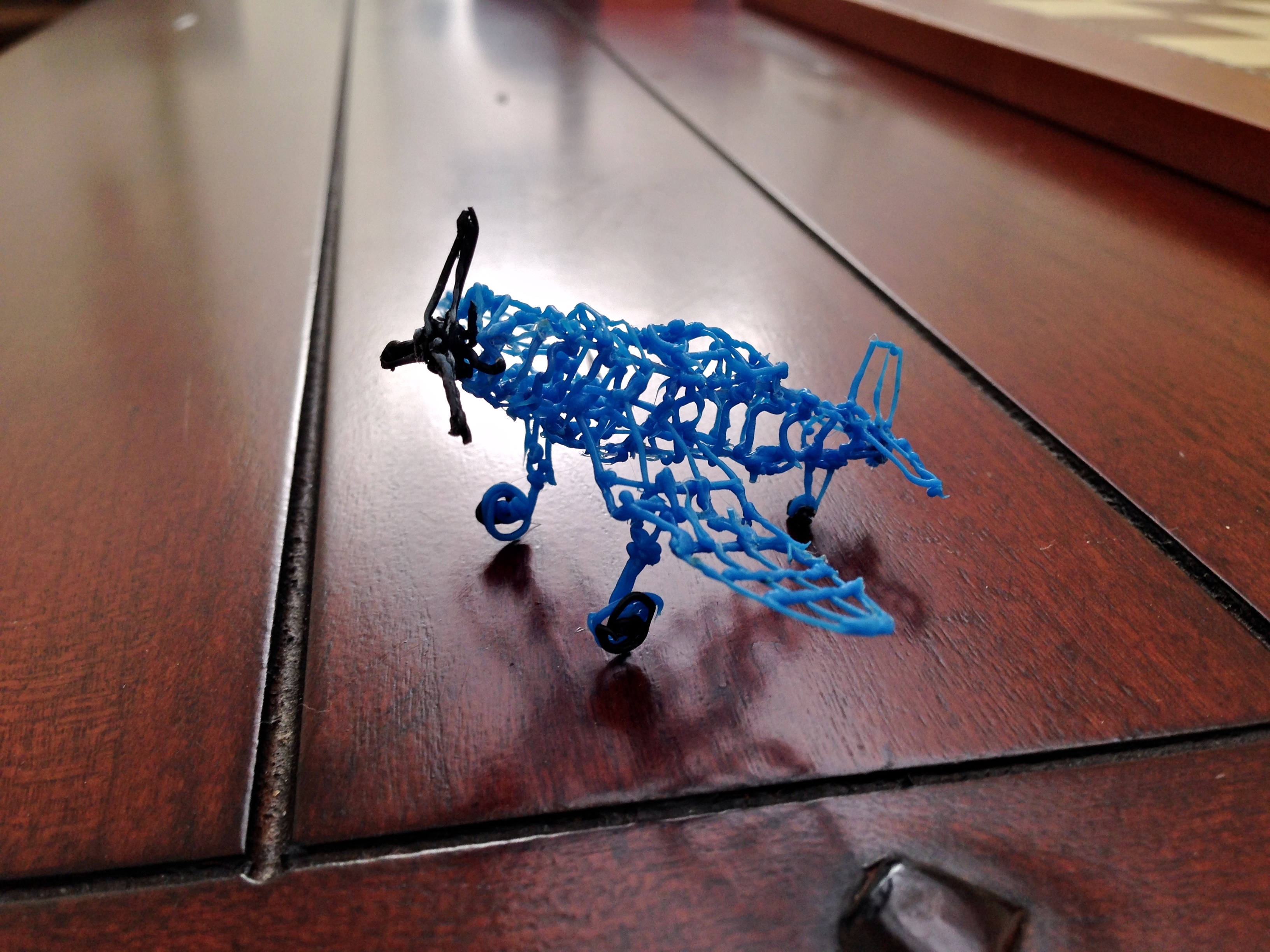 A Corsair model airplane drawn using 3Doodler on a coffee table.